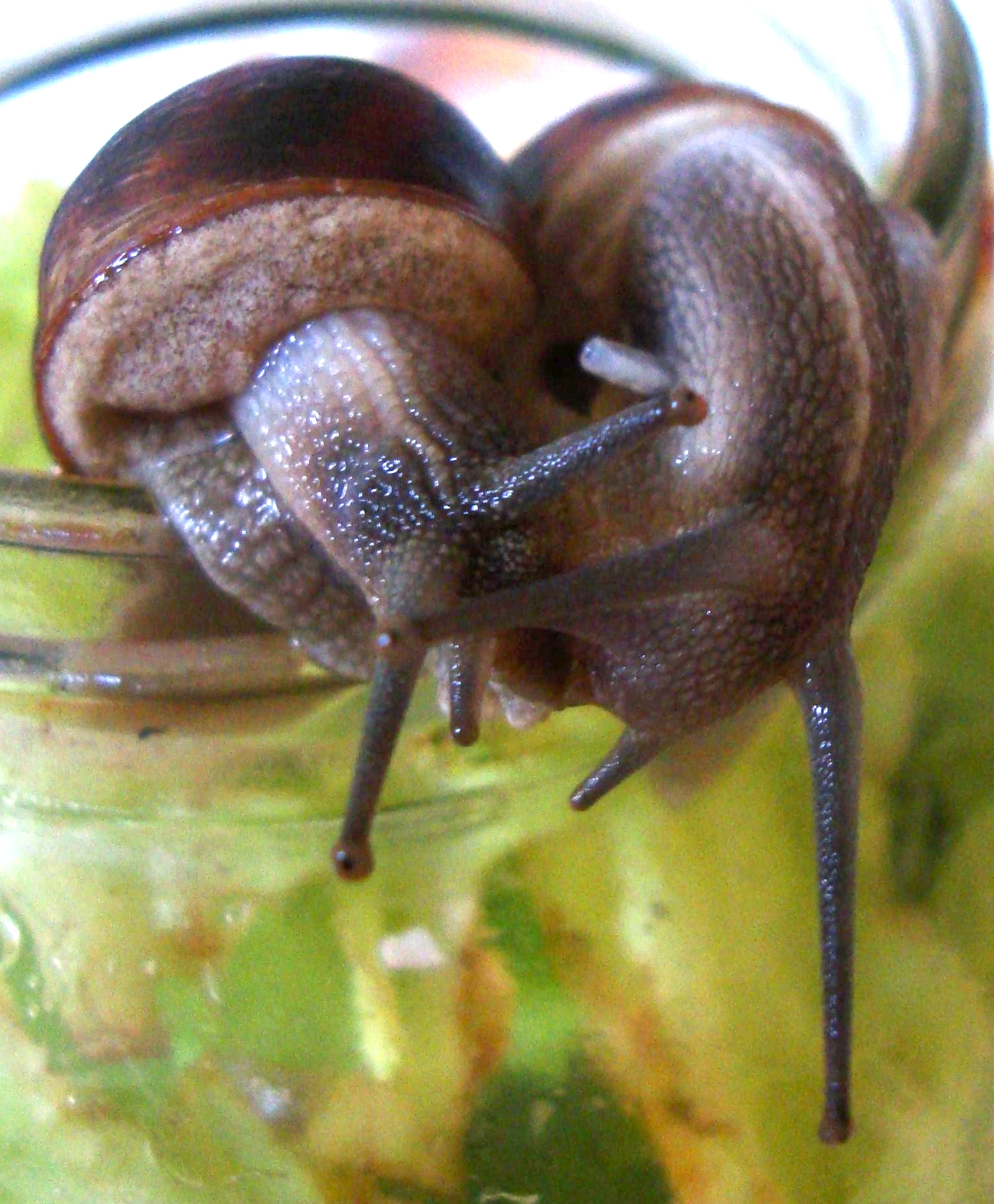 Two Irish Helix aspersa (garden snails) before mating, one of them showing a love dart. The same love dart can be seen in File:Love dart of Helix aspersa.jpg an hour later, compared to a 50 cent euro coin.